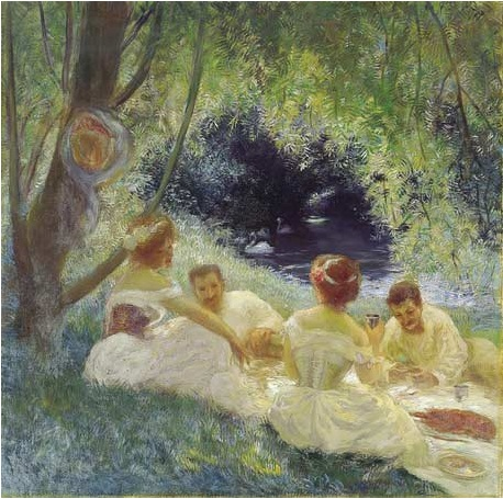 Le dejeuner a l'herbe